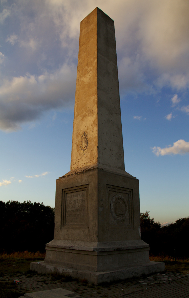 Kaim Hill Memorial